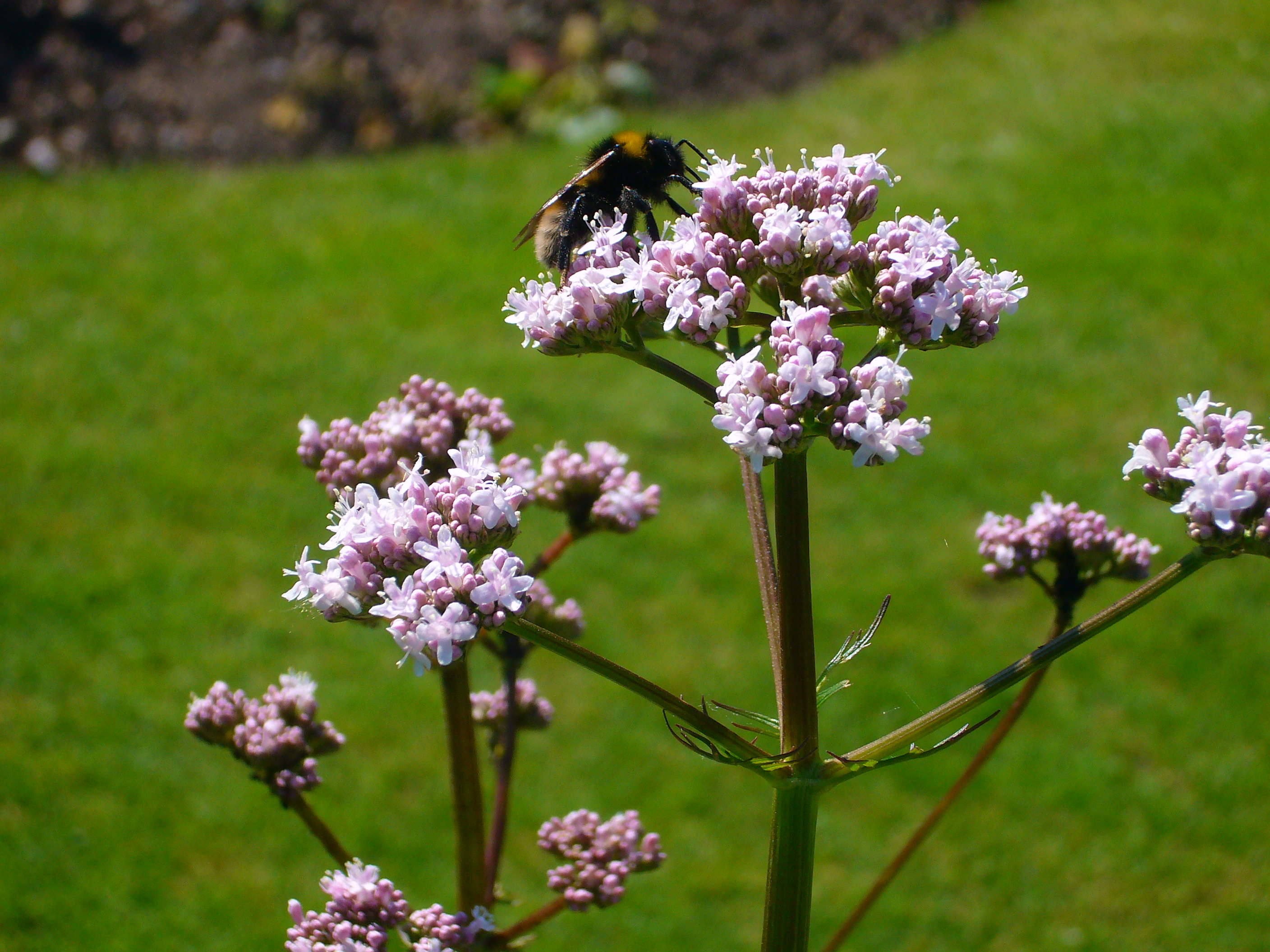 Flower with bee. Photo taken in the Cambridge University Botanic Garden.